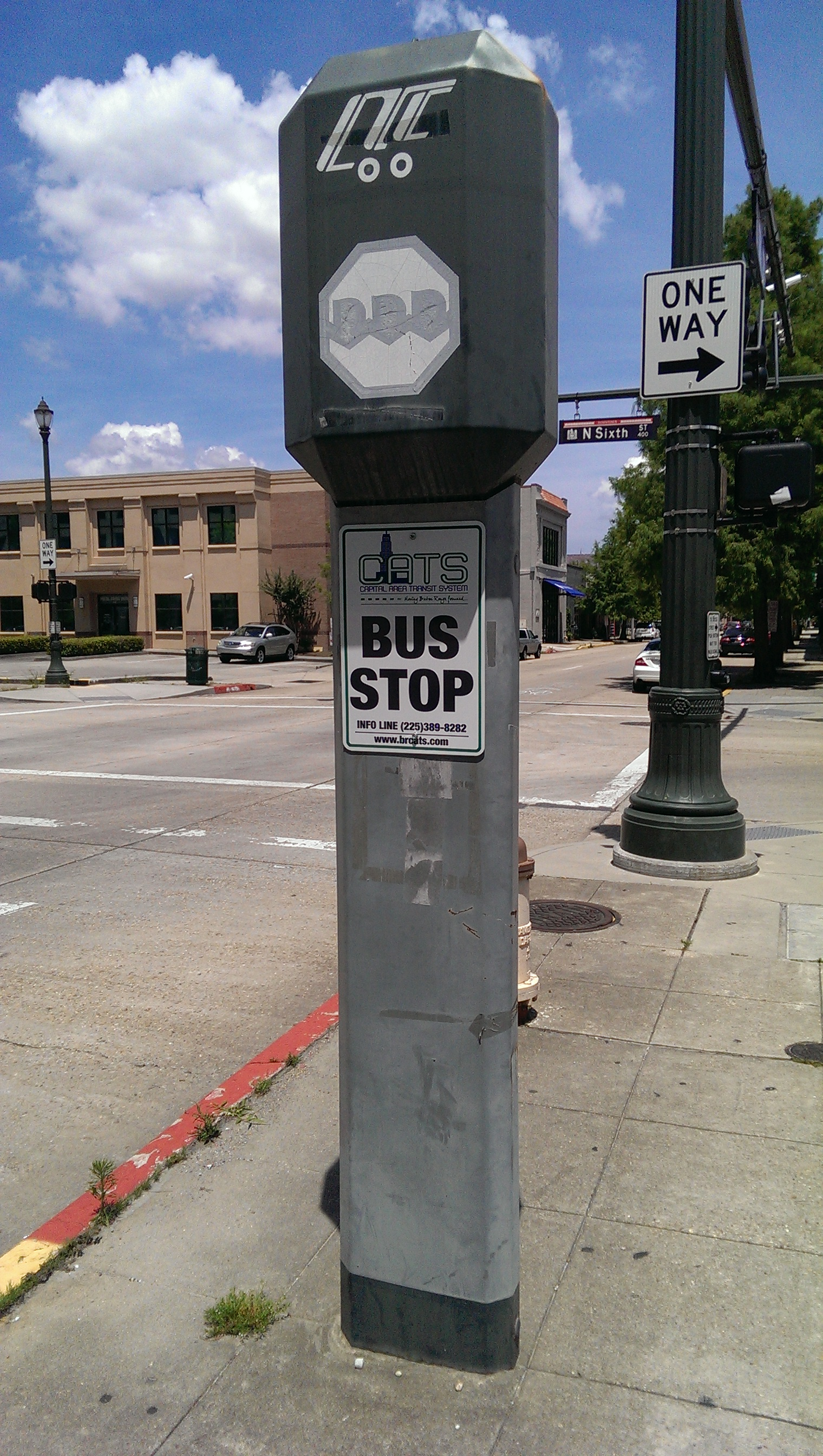 Former CTC bus stop pylon displaying a modern CATS stop sign. Most of these indicate a bus stop in the CATS system; one notable exception being the one on the east side of the State Capitol